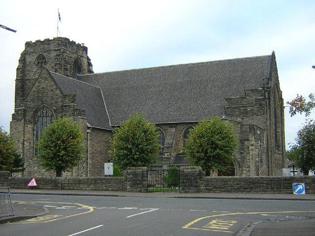 Cathcart Old Parish Church, Carmunnock Road, Glasgow, seen from the south